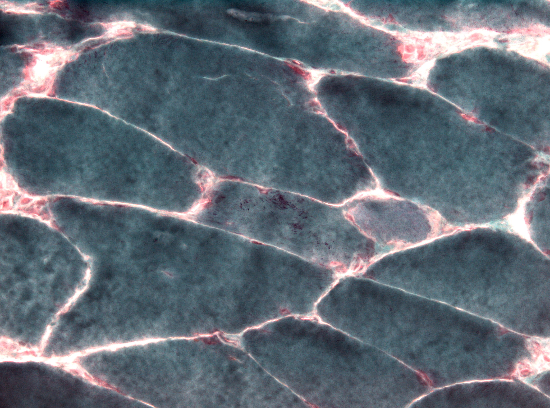 Muscle biopsy showing rod-like inclusions in a myofiber as seen in Nemaline myopathy (Gomori trichrome stain)